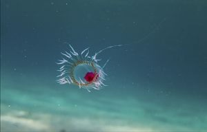 Turritopsis dohrnii medusa